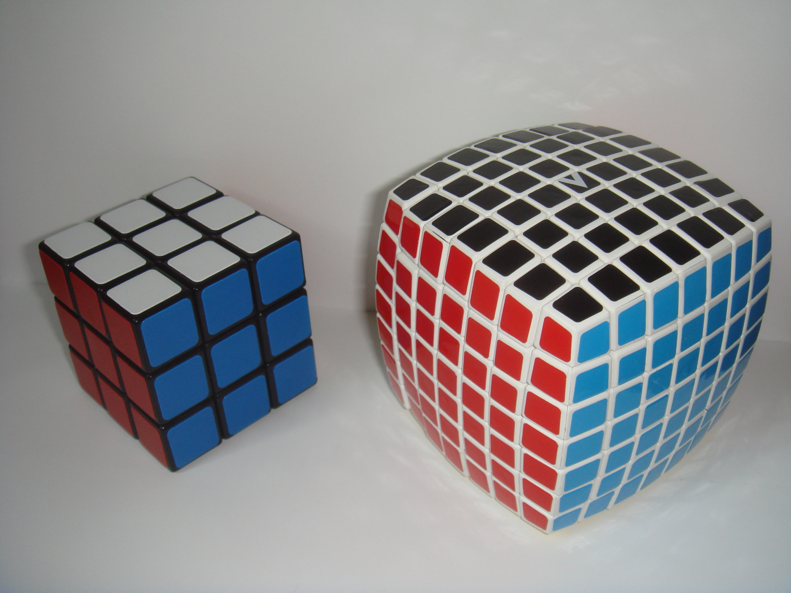 A size comparison between an "ordinary" 3x3x3 cube, and a 7x7x7 v-cube.